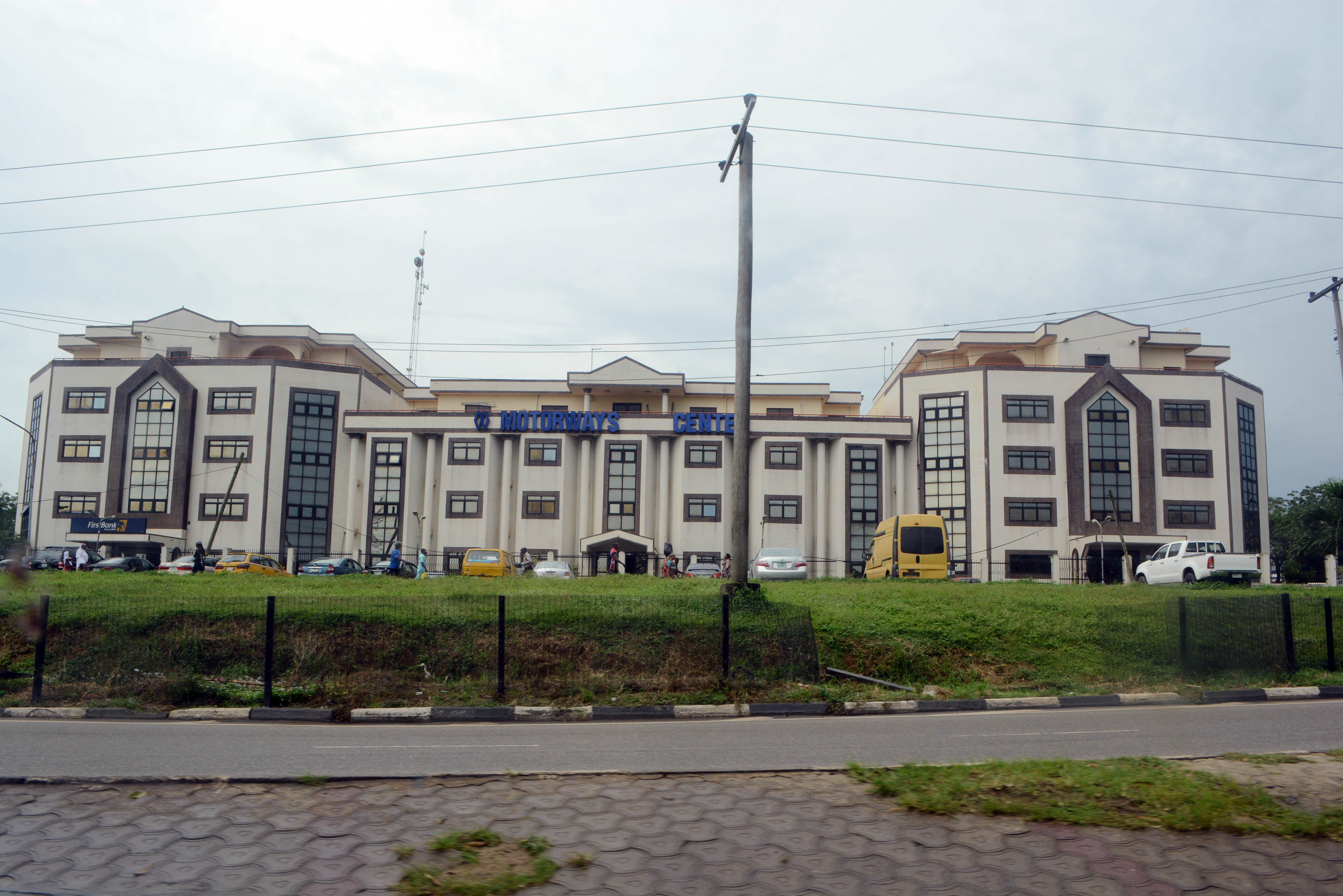 Tollgate, Lagos Ibadan express way